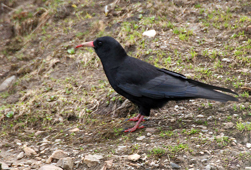 Red-billed Chough Pyrrhocorax pyrrhocorax in Kullu District of Himachal Pradesh, India. Finally, I could have a decent shot of this bird in Himachal Himalayas, after failing in the pursuit for past many years. This bird is always fascinating to a layman & the trekkers. They are surprised to know a crow with a red bill (bill shape unlike that of a crow) & red feet & with not-a-crow like call (far carrying & penetrating nasal 'chaow.... chaow') existing in Himalayas. From a distance, it will appear like a Large-billed Crow only as the curved red bill & feet etc. are not that visible or one doesn't pay much attention. Picture is that of an Immature bird, with bill still not getting its red colour. Taken at Tilla Lotani Camp (12,500 ft.) during Sar Pass Trek in Himachal.